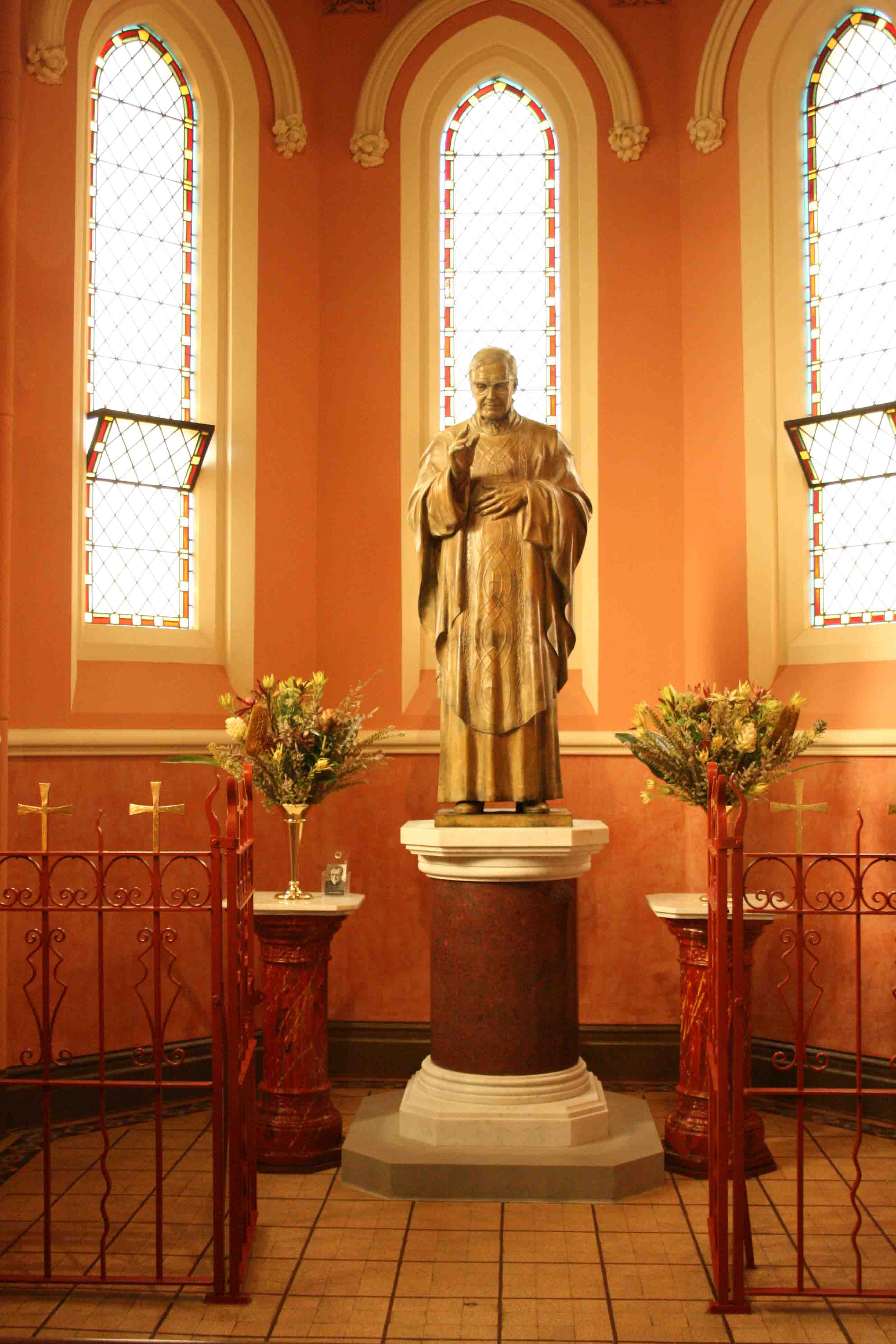 Estatua